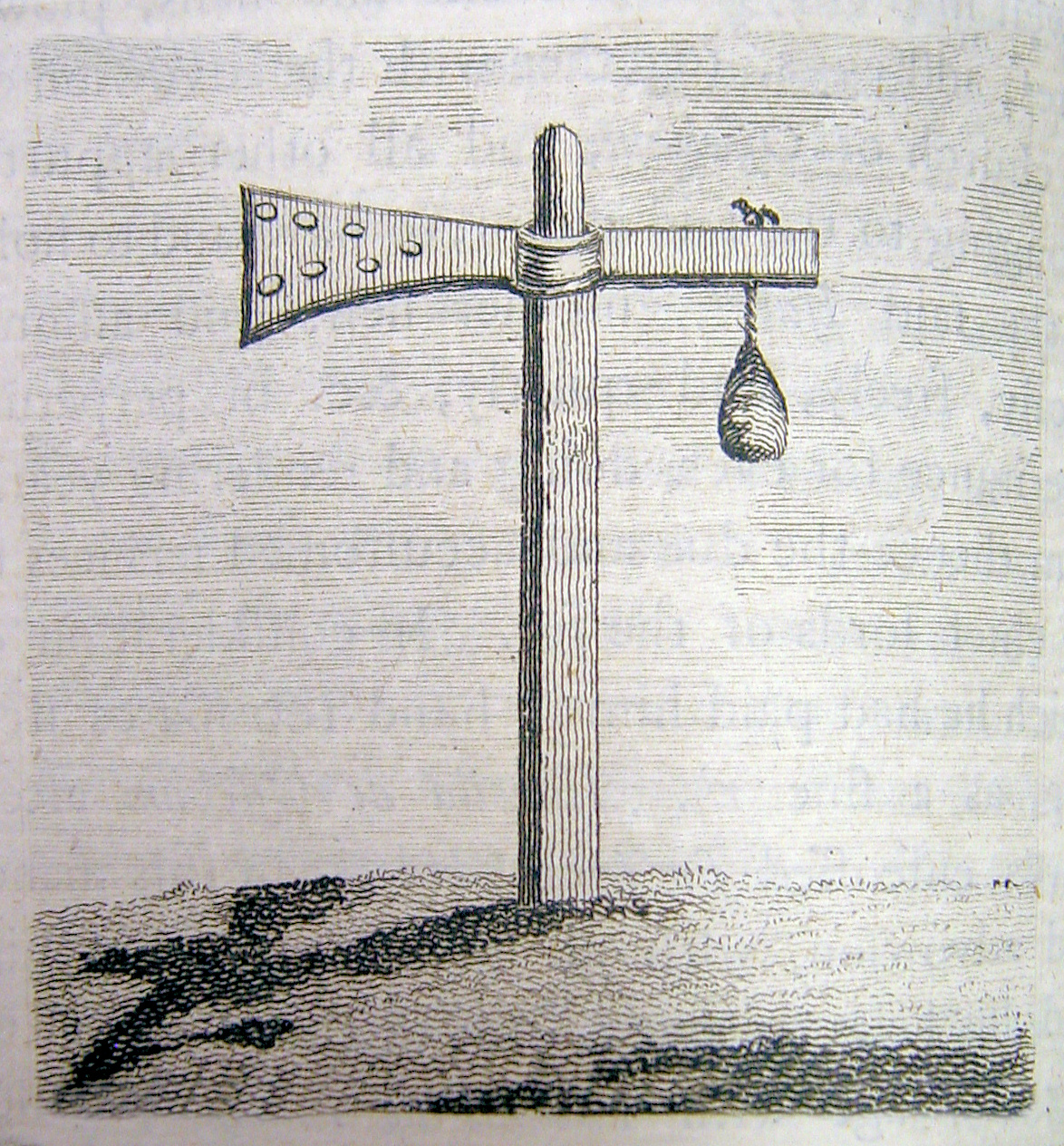 A photogrph of an illustration of the Quintain on the Green in Offhm, Kent in the referenced work dated 1798